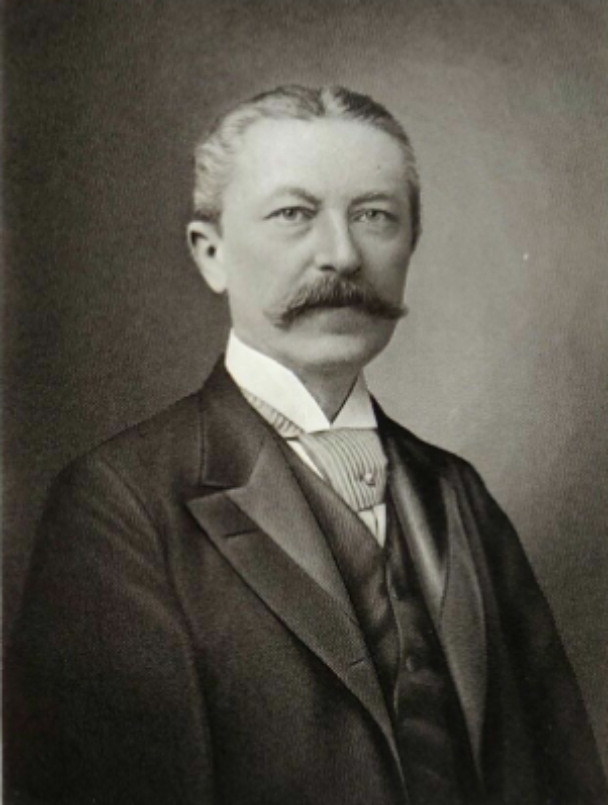 German-born American architect, Carl Fehmer (1838-1917)